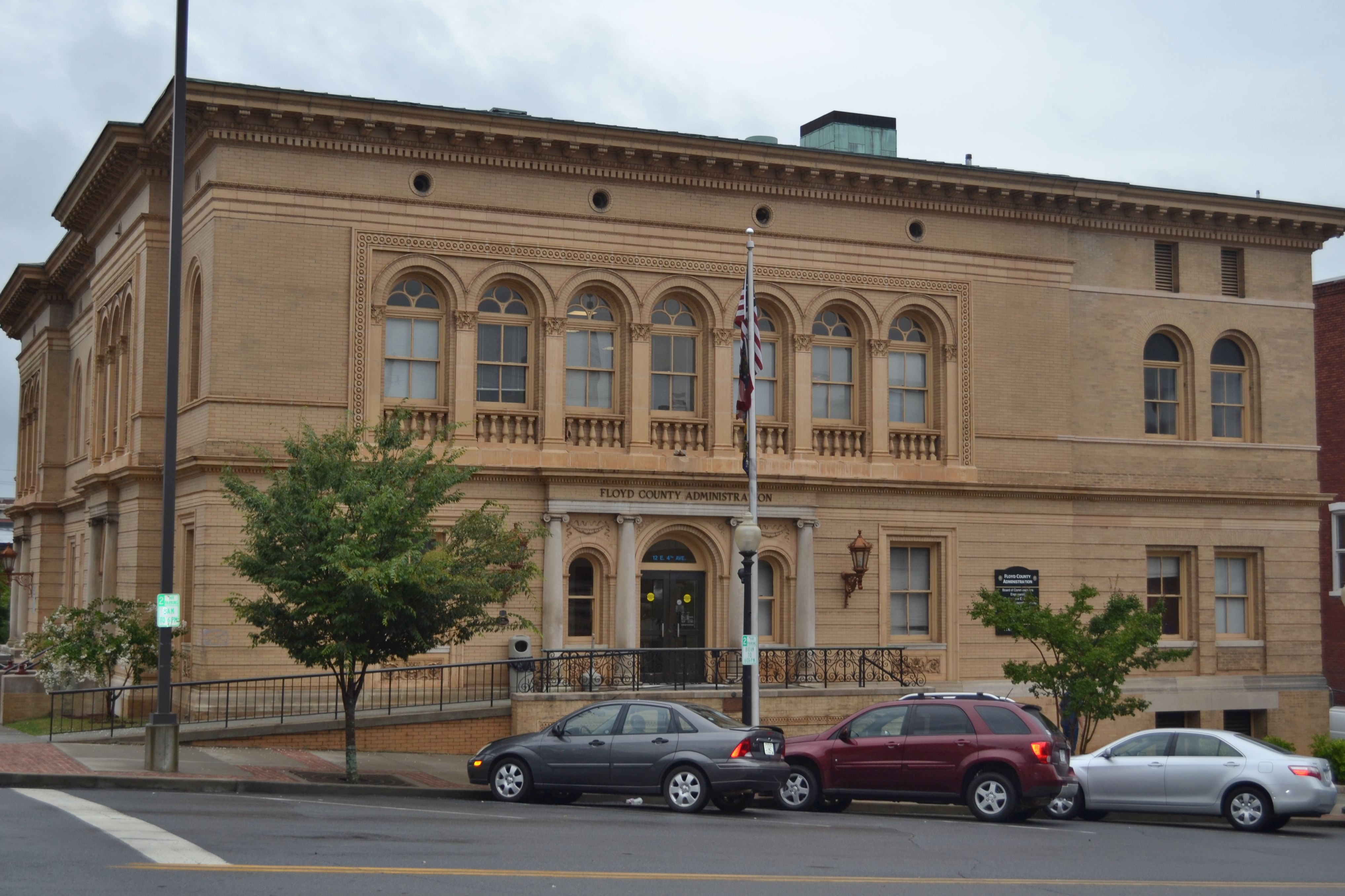 U.S. Post Office and Courthouse